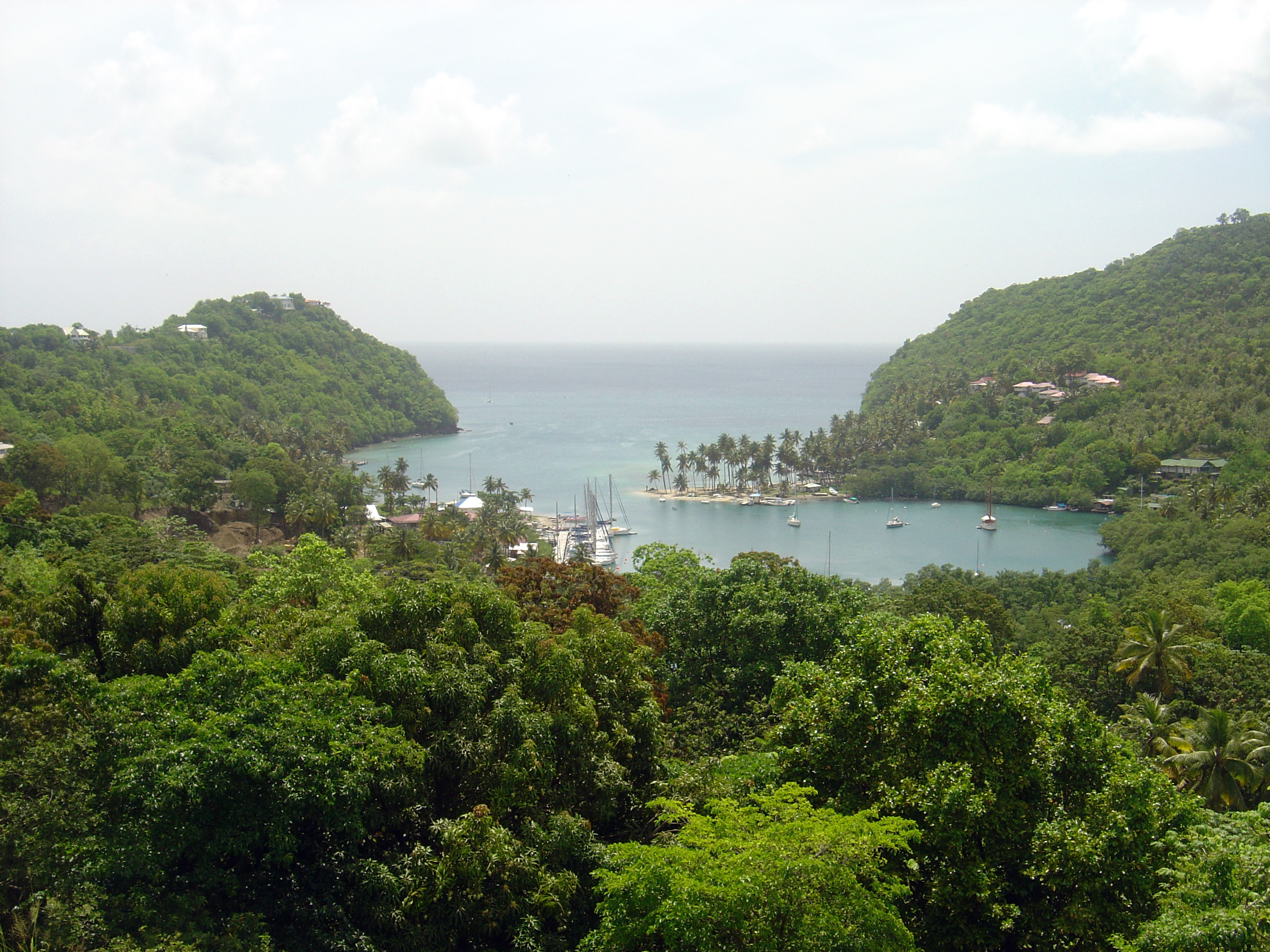 Marigot Bay, Saint Lucia